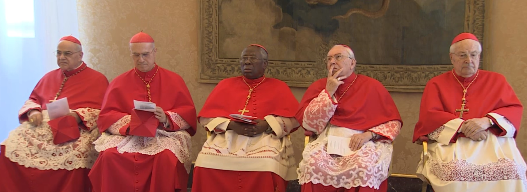 Cardinal Bishops during the ordinary consistory of the 20 April 2017 in the Vatican. Cardinal Etchegaray missing.